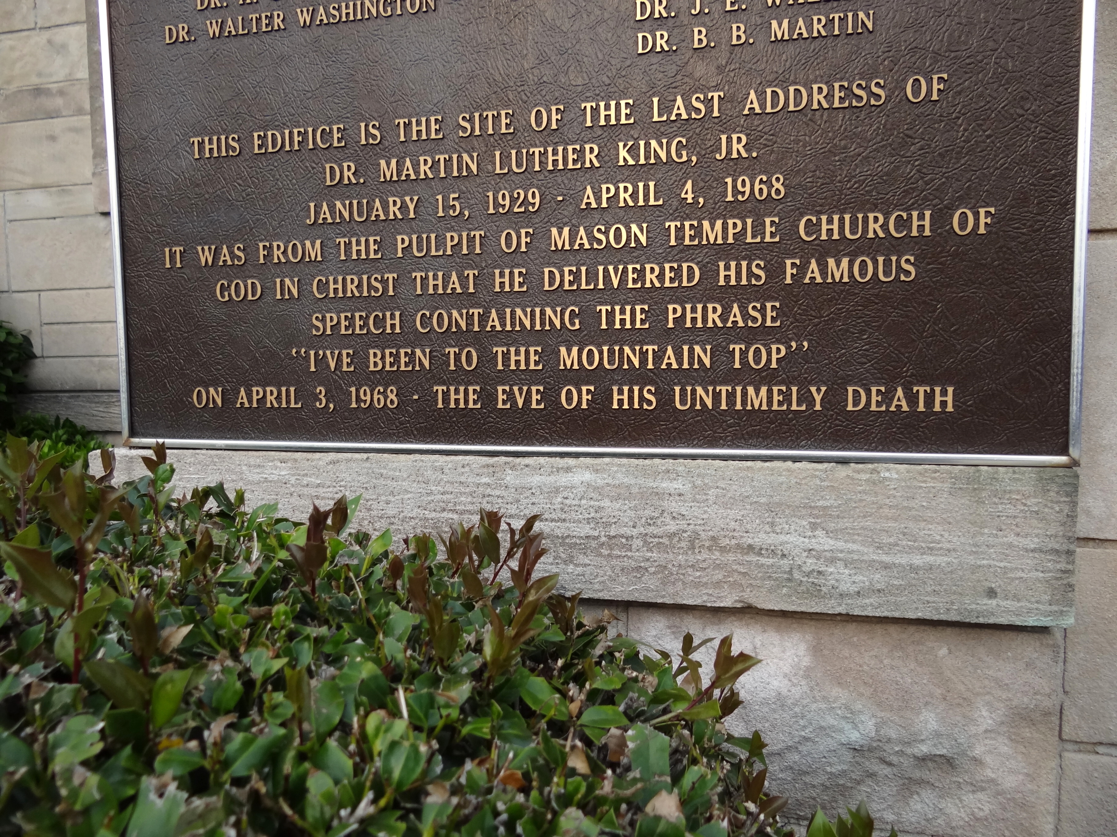 Plaque Outside Mason Temple Church of God in Christ - Where Martin Luther King Delivered His Mountaintop Speech - Downtown Memphis - Tennessee - USA